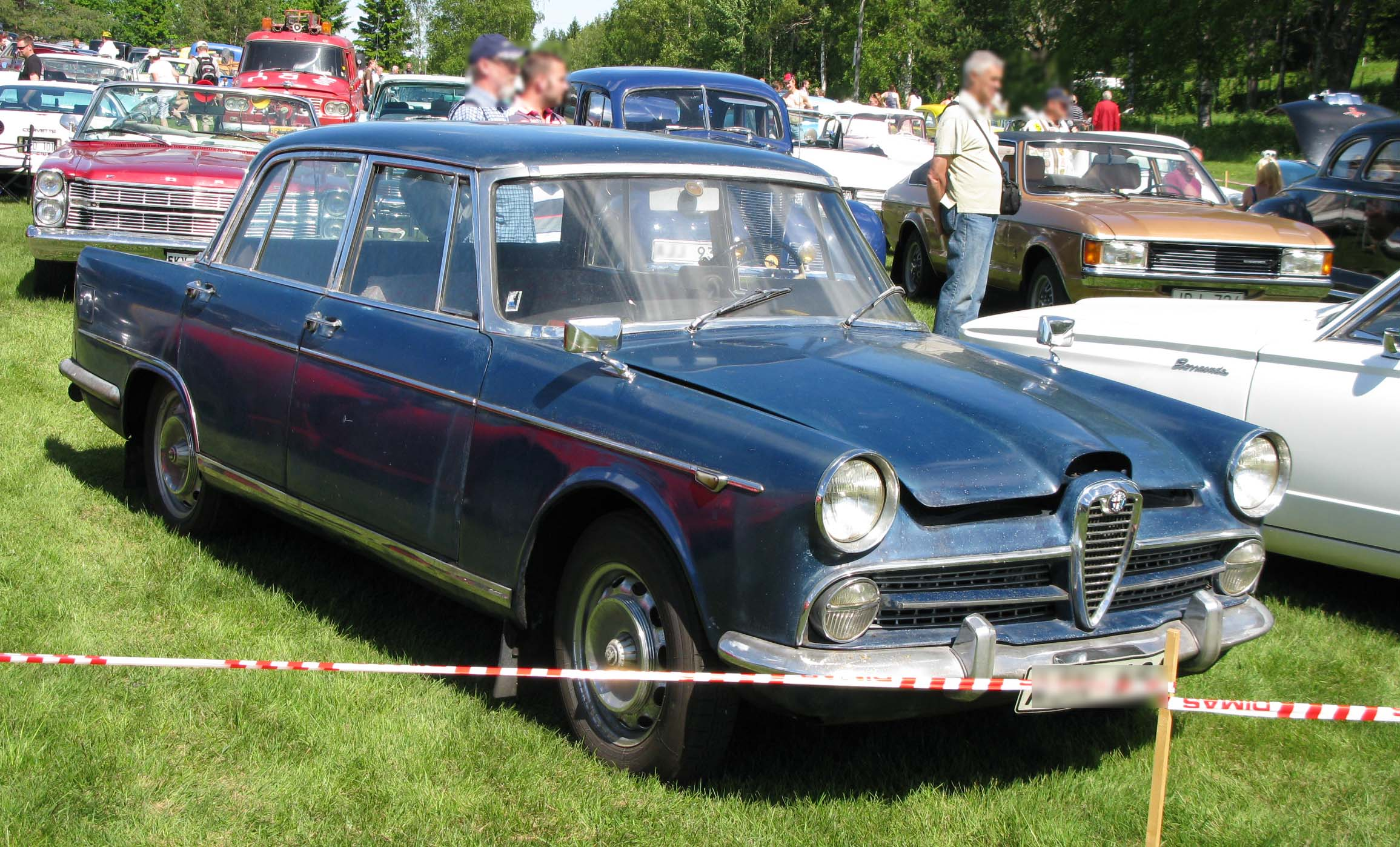 1960 Alfa Romeo 2000 Berlina.Event: Ånnaboda Classic Motor 2011